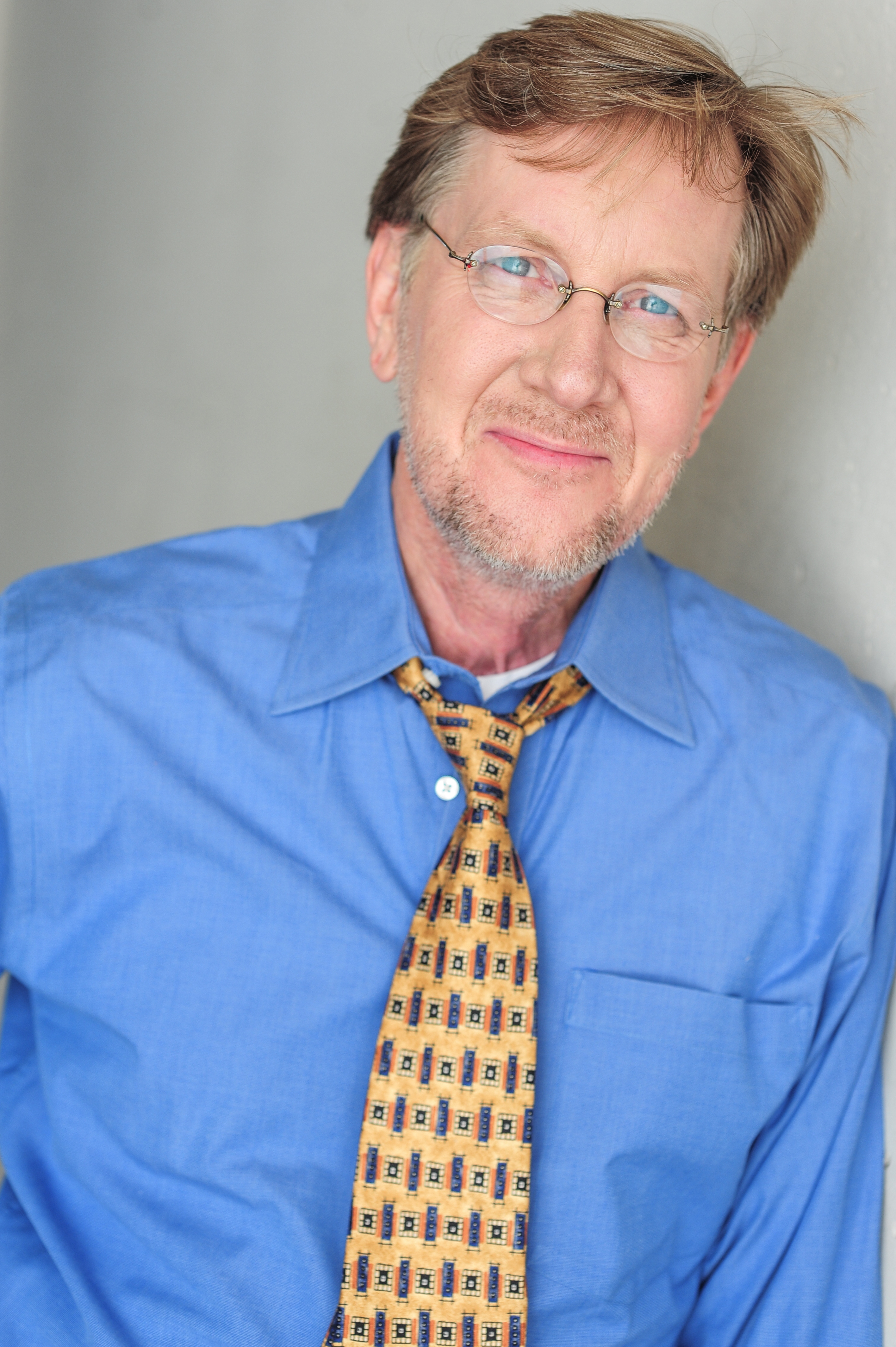 Headshot of Robert Clotworthy.